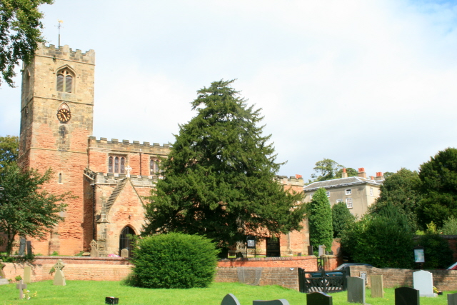 Strelley Church and Hall